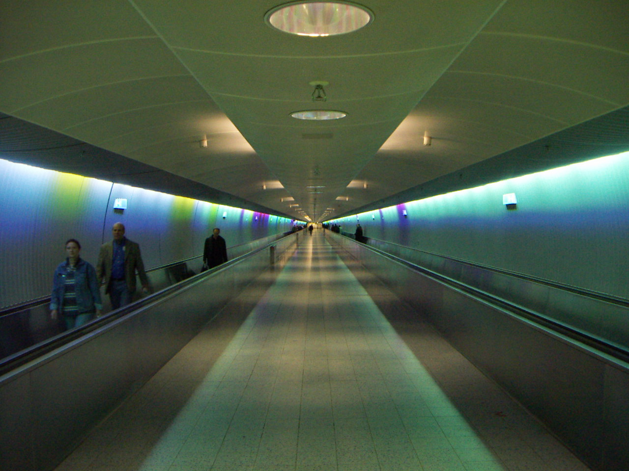 The moving walkway tunnel at Frankfurt Airport.